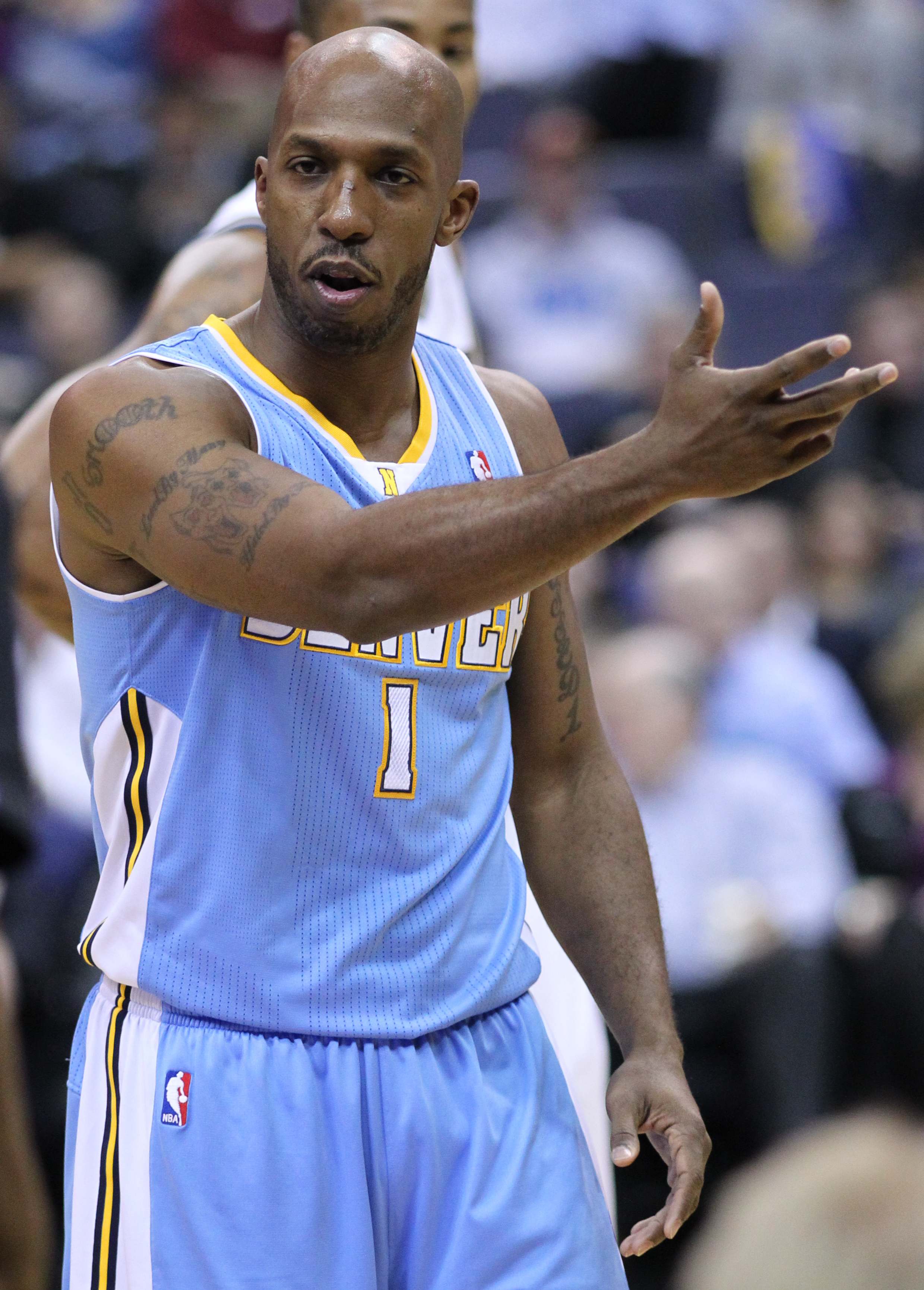 Chauncey Billups in Denver